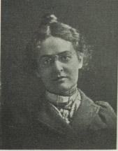 Frances H. Gearhart 1900 Graduation Picture University of California, Berkeley Bancroft Library